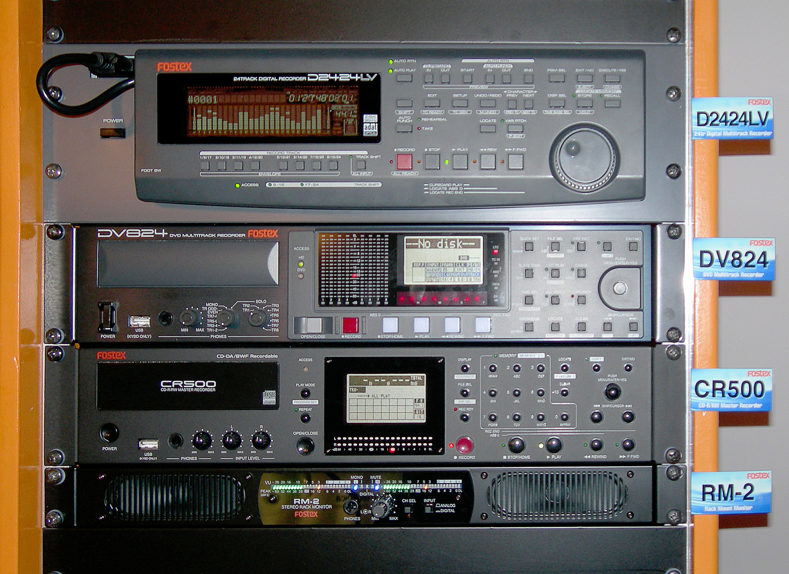 Recorders by Fostex: D2424LV – 24 track Hard Disk Digital Multitrack Recorder, DV824 – DVD Multitrack Recorder, CR500 – CD&RW Master Recorder; RM-2 – Rack Mount Monitor. IBC 2008, Amsterdam